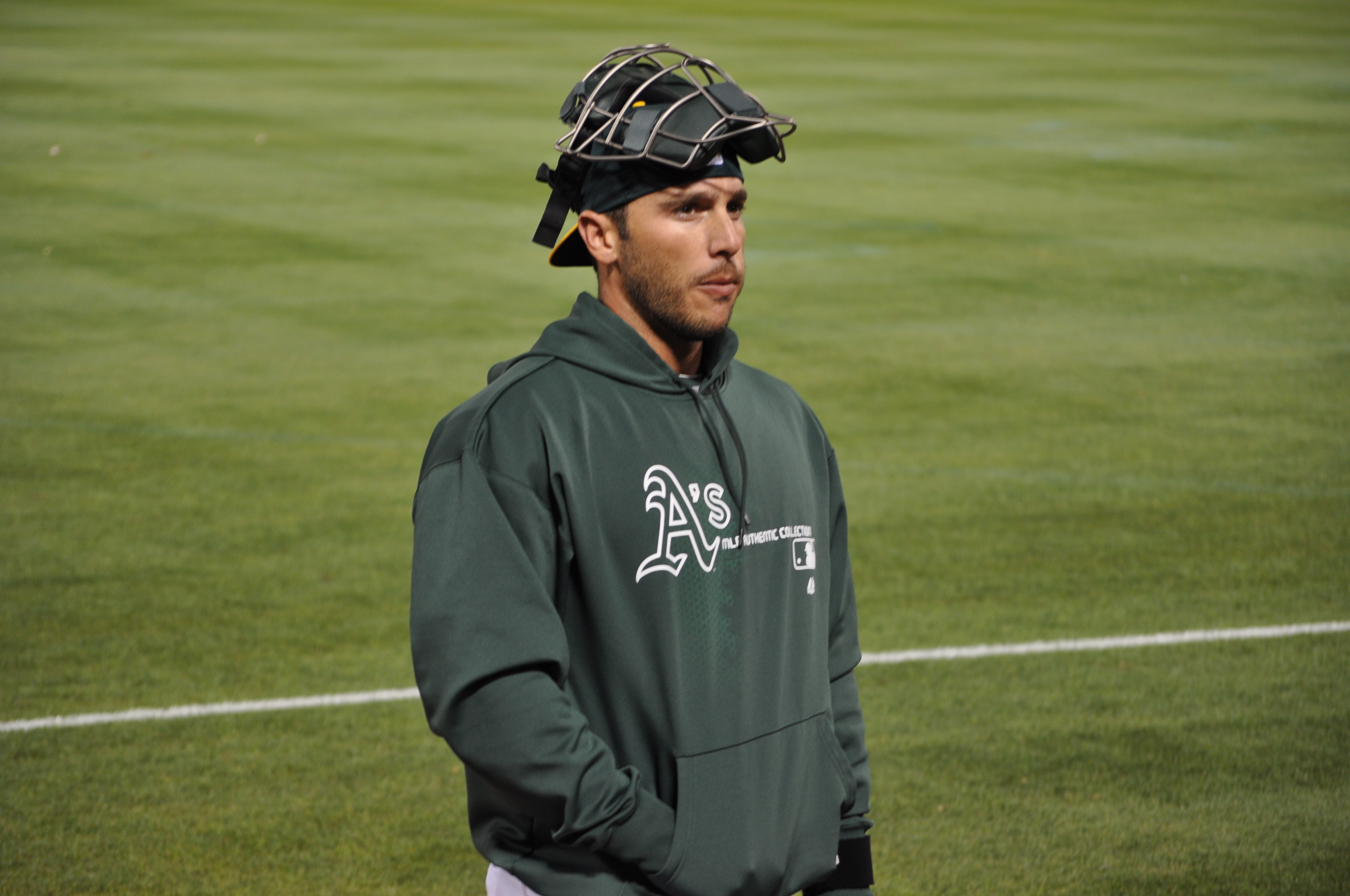 George in the bullpen during the 8-21-12 A's-Twins game.